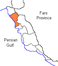 Ganaveh County in Map of Bushehr Province of Iran.